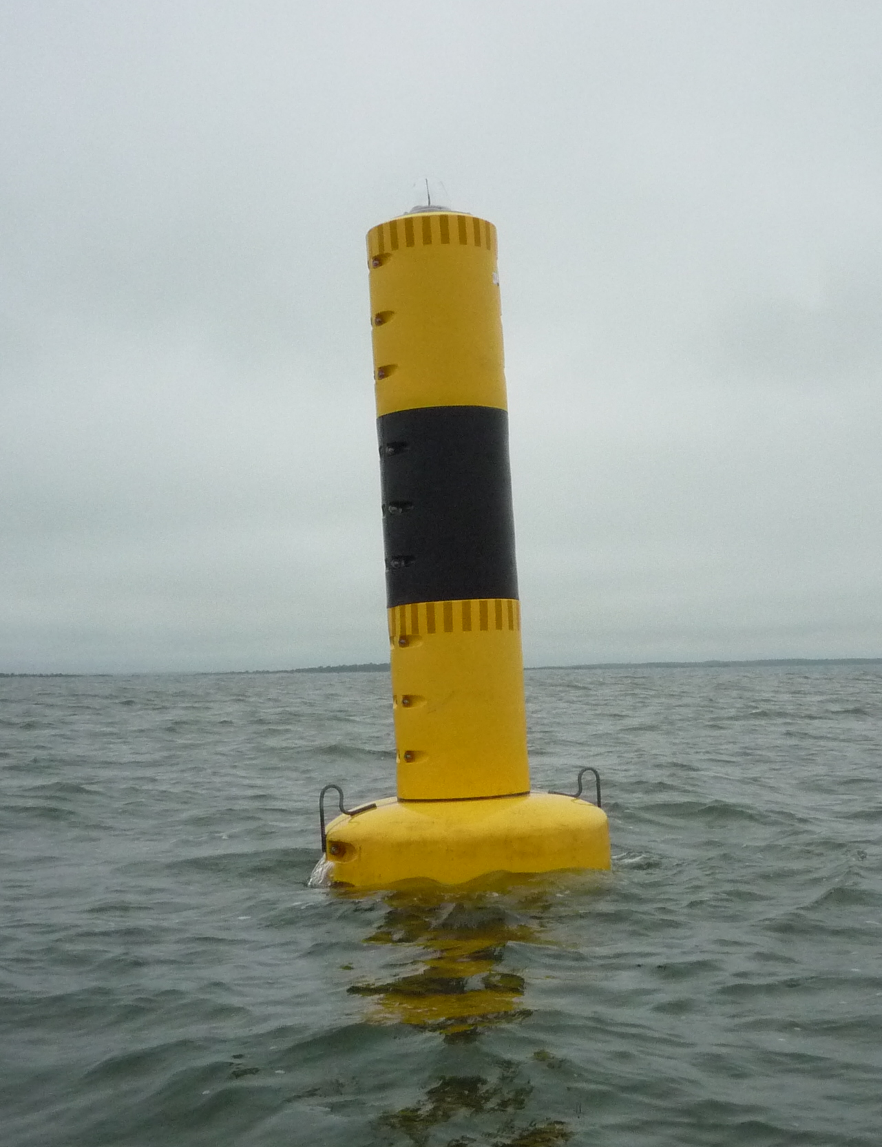 Buoy Härjamaa Madal, view from west. 4 miles south of Rukkirahu, near Suur-Härjamaa island. A few cables west of the border of Matsalu national park. Väinameri, Western part of Estonia.